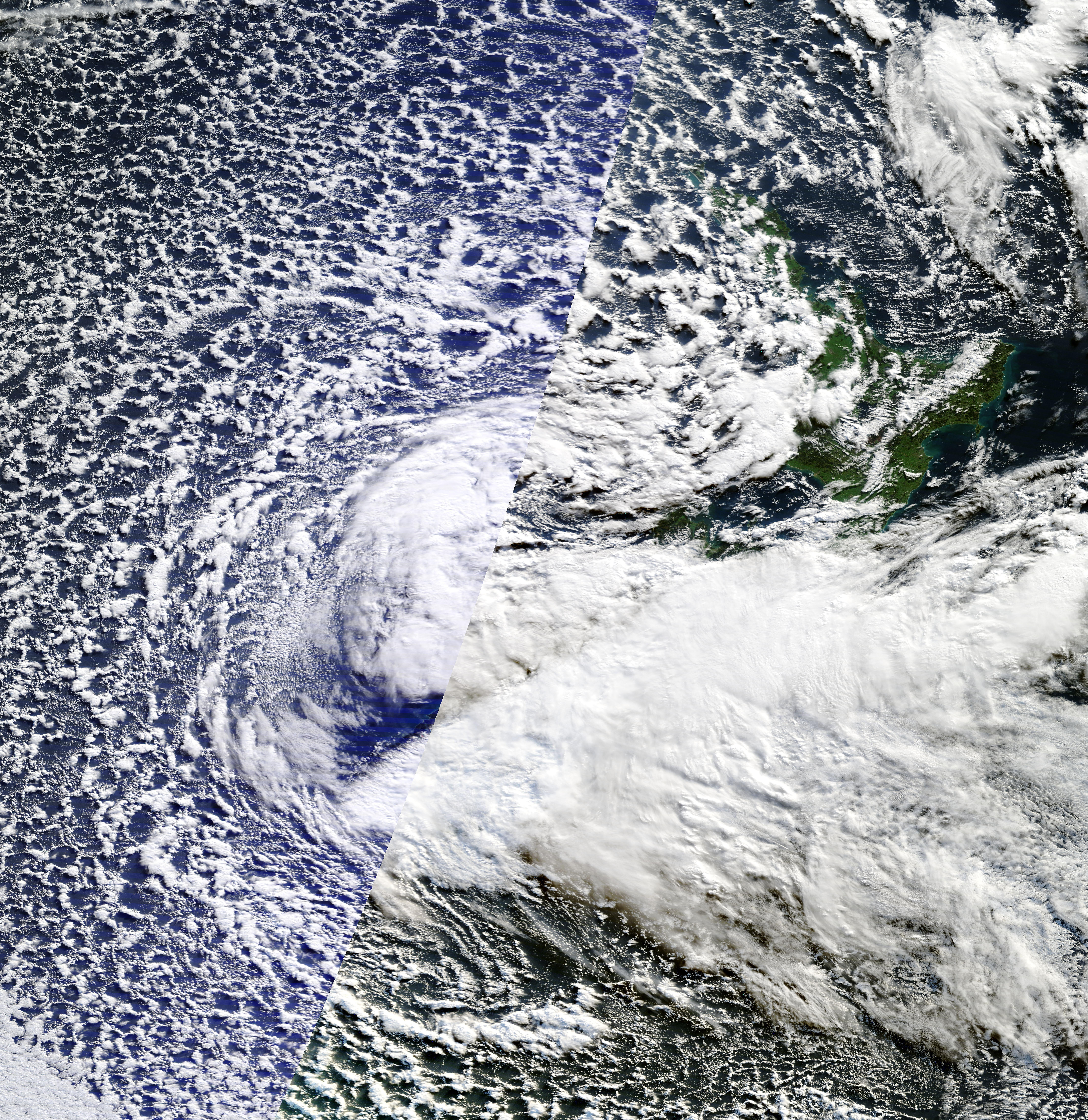 An extratropical storm over New Zealand on June 20, 2013